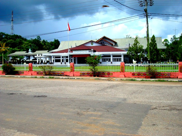 Regent Office Building of Sanggau Regency